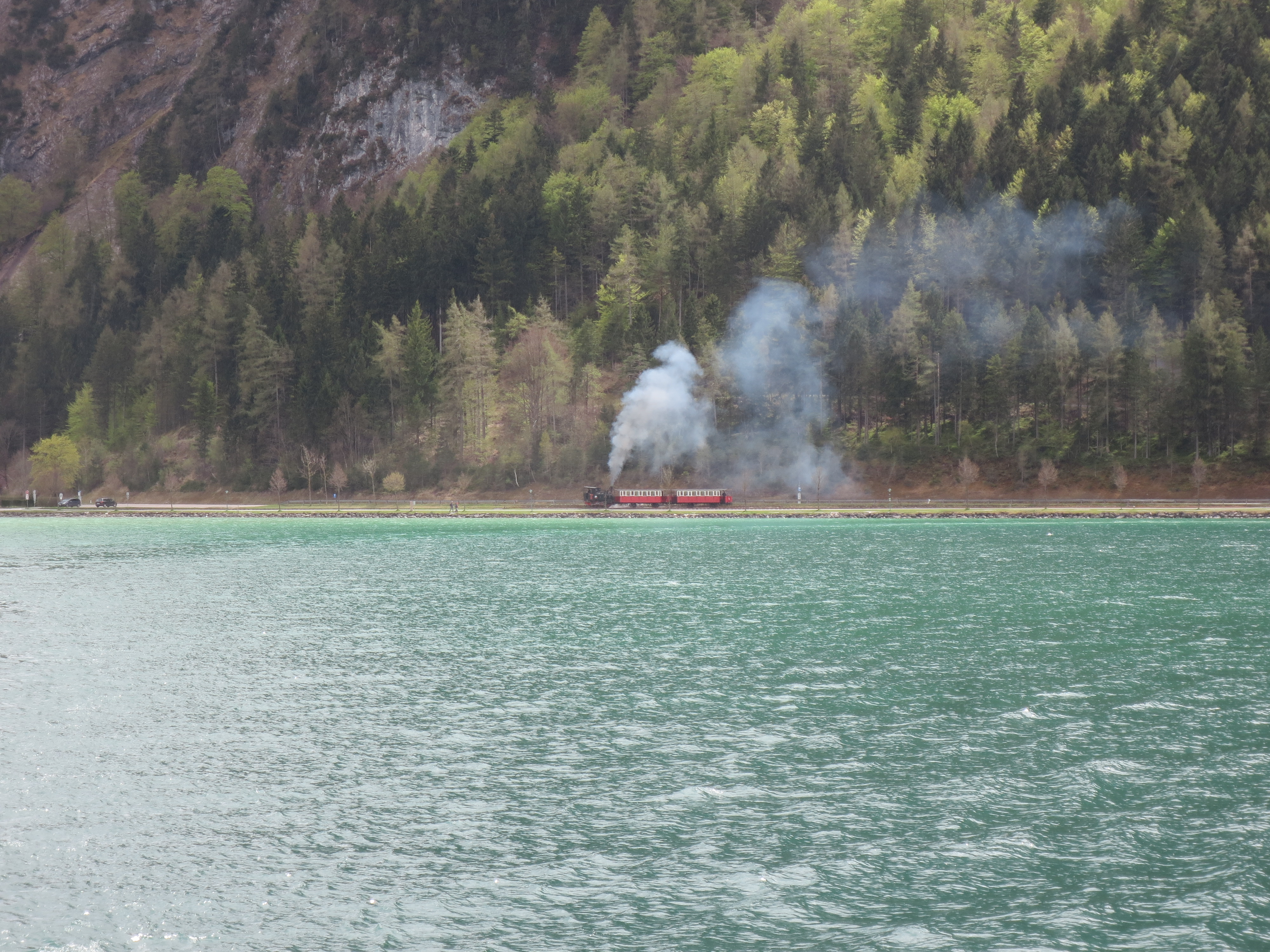 Train at shore of Achensee